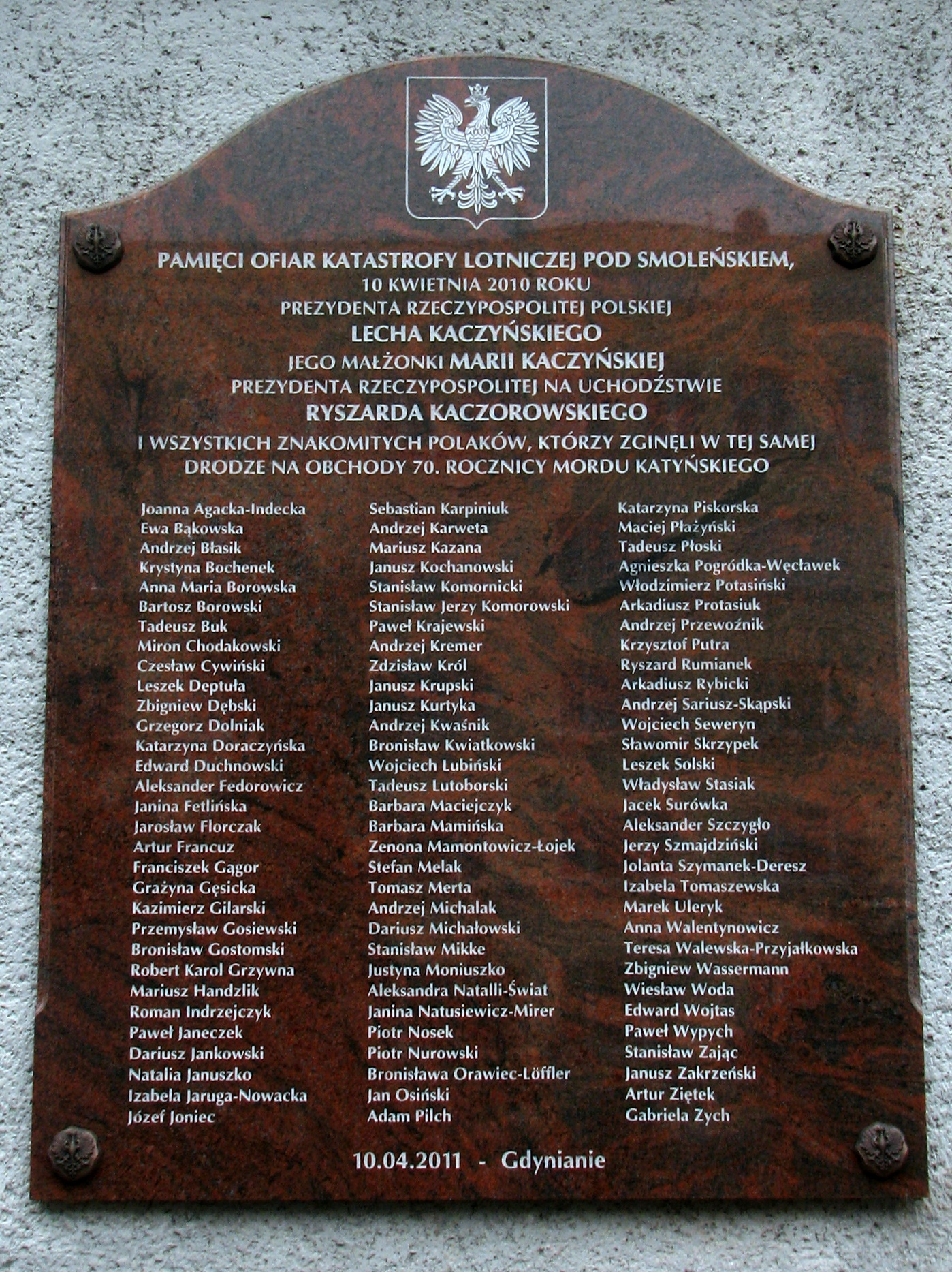 Plaque to victims of 2010 Polish Air Force Tu-154 crash on Collegiate Church in Gdynia.